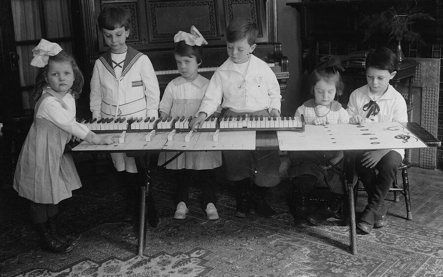 Evelyn Fletcher Copp piano method circa 1916